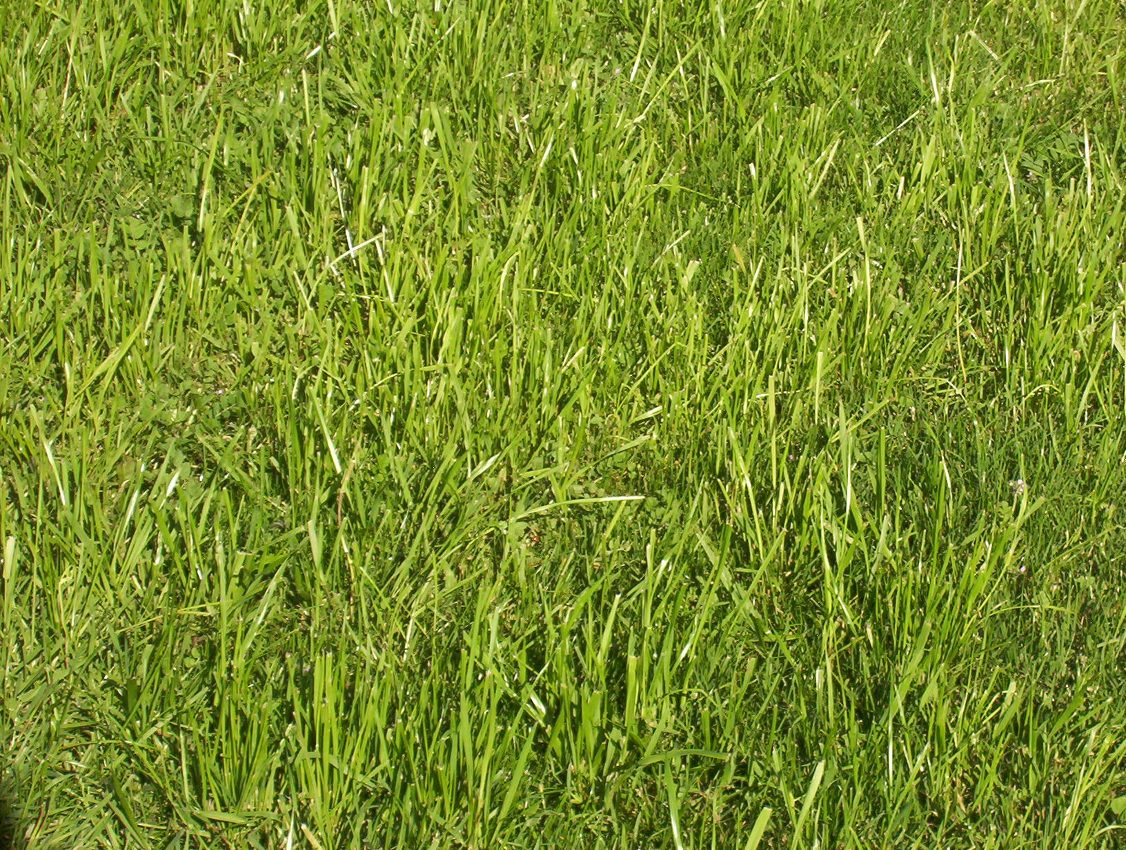 Grass. Kiswahili: Manyasi.